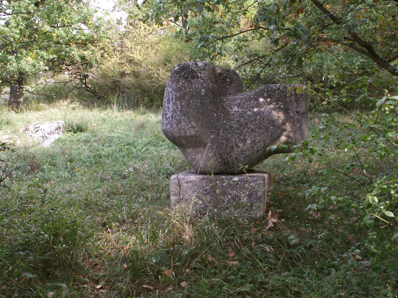 „Symposion Europäischer Bildhauer“, St.Margarethen – Burgenland/Austria, Andre Willequet, 1959